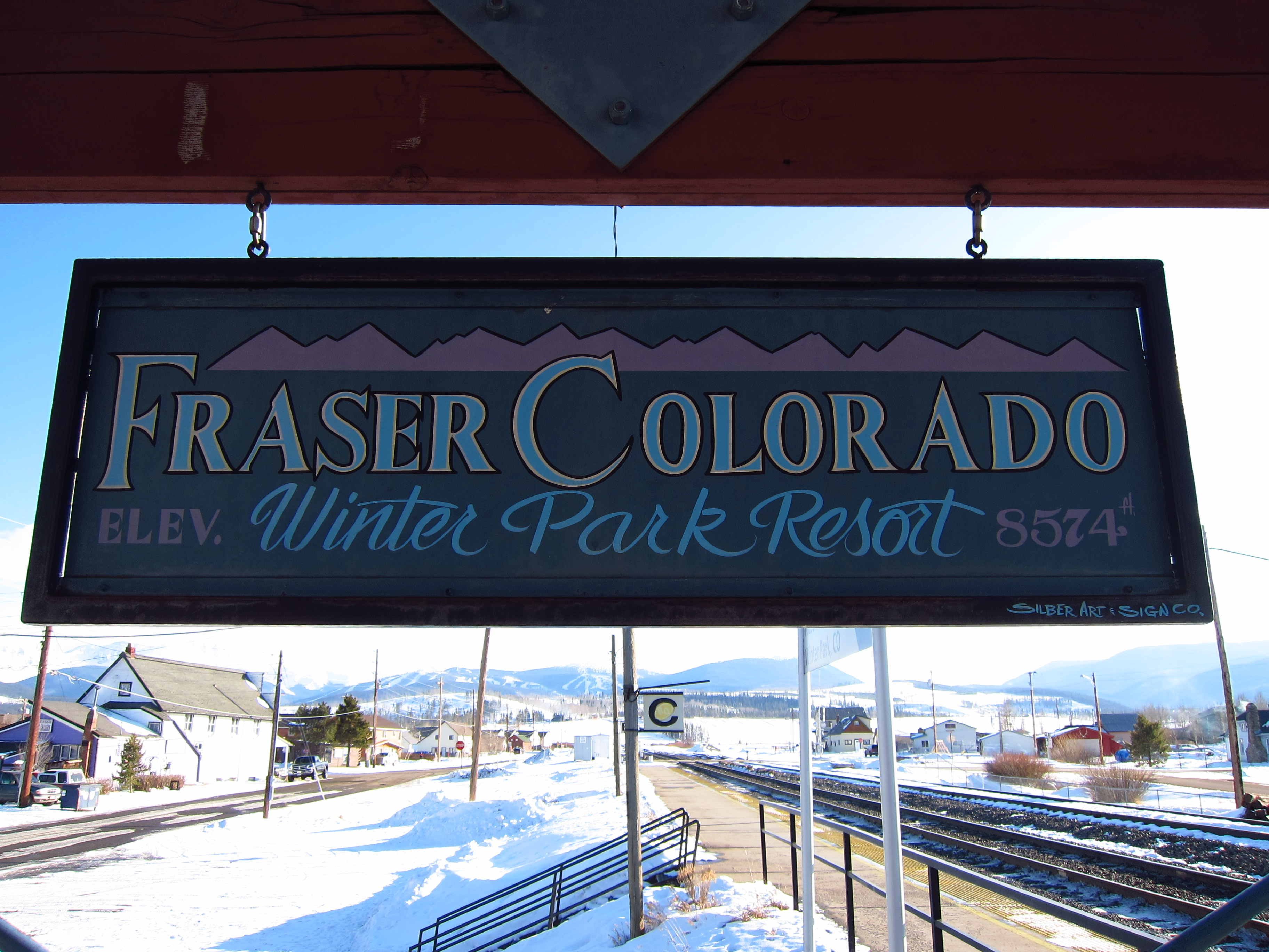 Sign in the Amtrak station in Fraser, Colorado. Mentions of Winter Park Resort